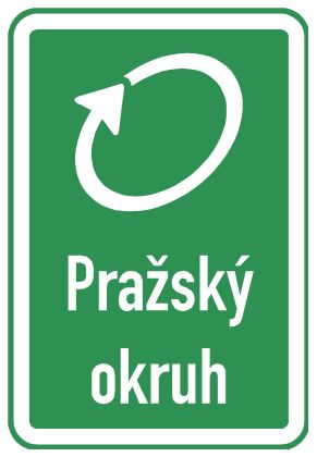 IP 1a "Beltway", Prague Ring. Road sign of the Czech Republic